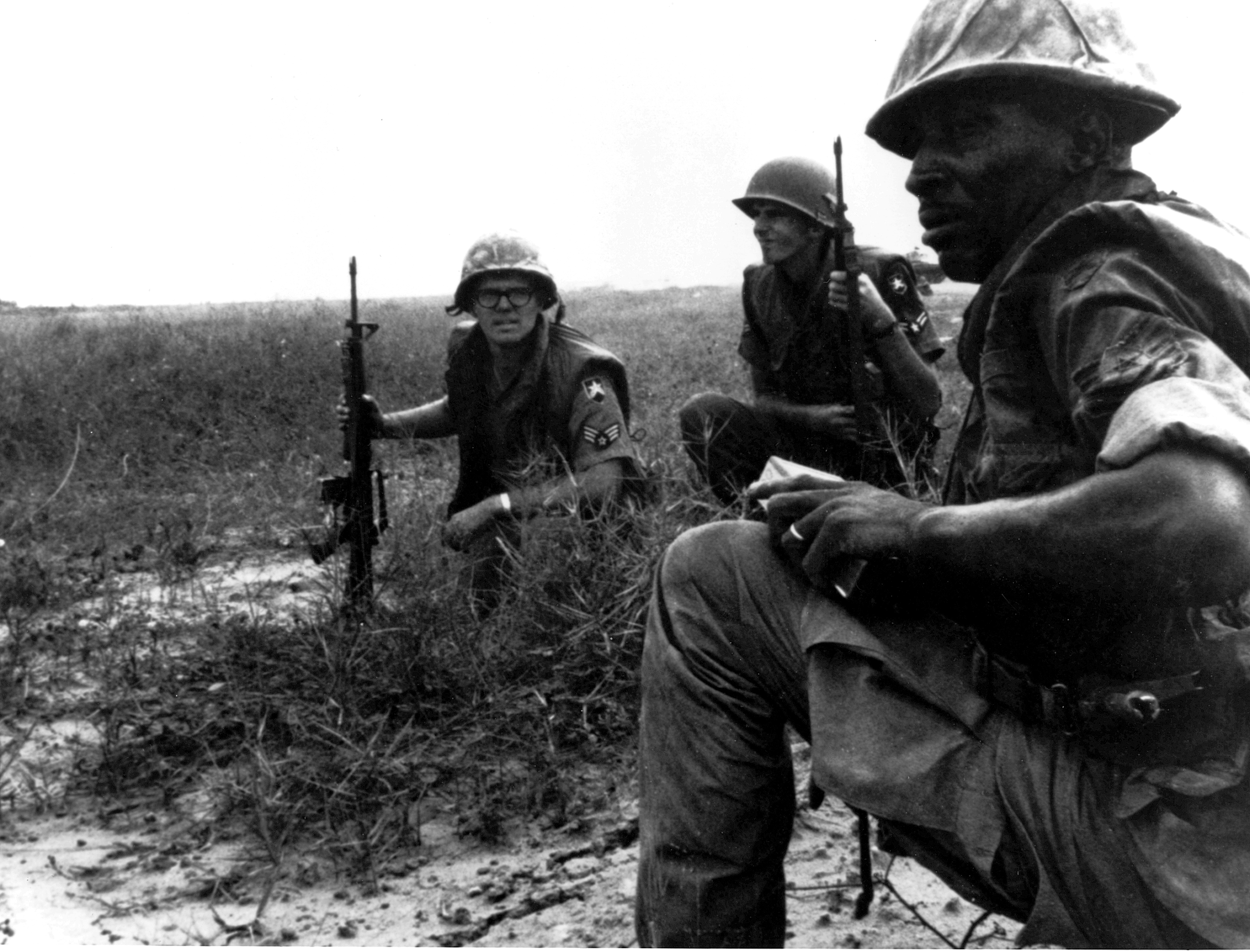 Air Force security policemen from Tan Son Nhut Air Base, watch for Viet Cong infiltration attempts along the base perimeter, as Technical Sgt. Philip H. Moon (foreground), 34, Stockton, Calif., awaits instructions from Central Security Control.